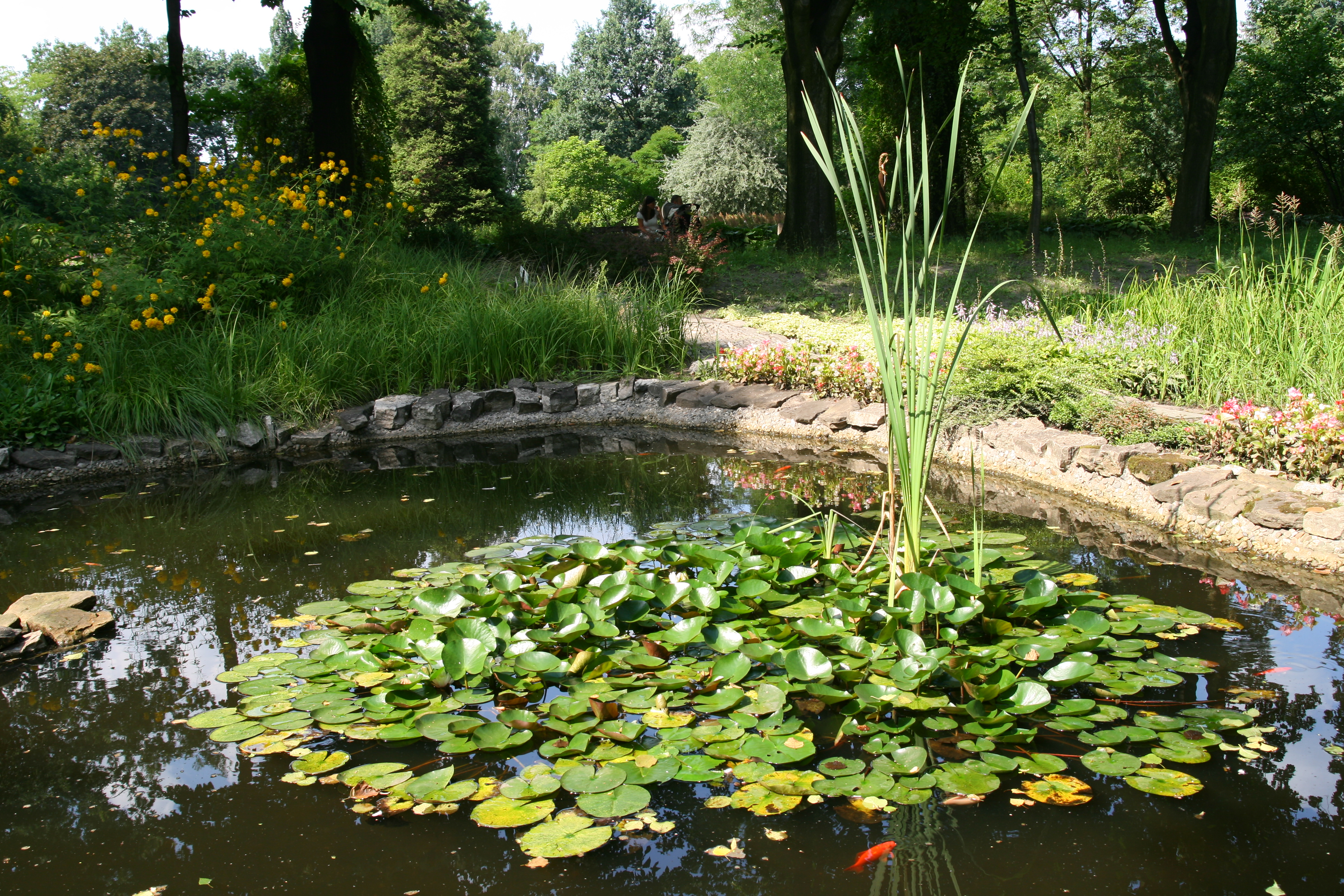 Botanical garden in Zabrze.